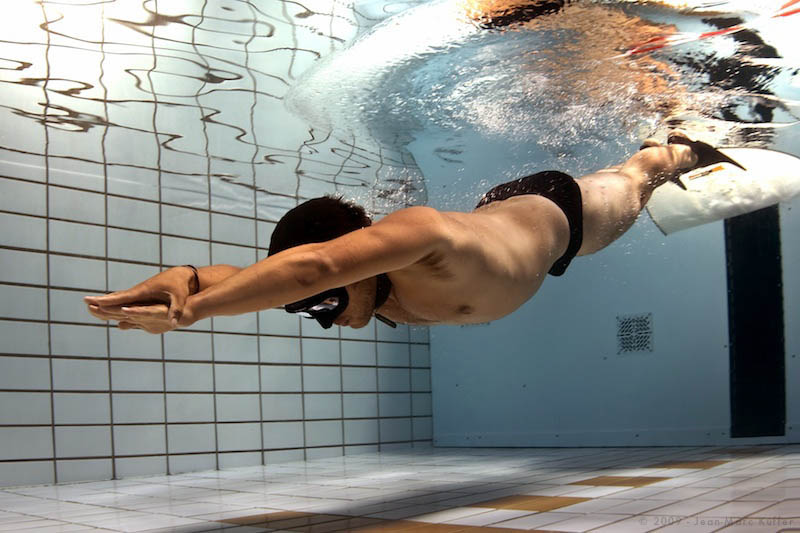 Monofin freediver holding his breath and swimming underwater to compete in the AIDA category of "Dynamic With Fins" (DYN) at the 2nd Great Camberwell Breath Hold Freediving Competition held in London on 31 May 2009.